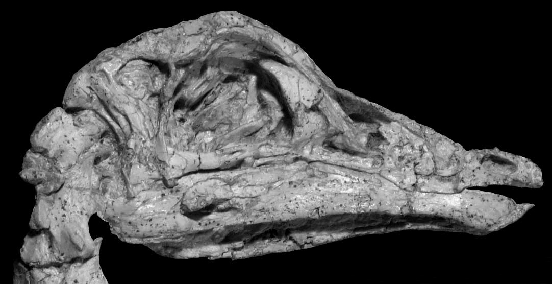 Juvenile skull of Sinornithomimus dongi gen. et sp. nov. (IVPP−V11797−11) in right lateral view. Scale bar 5 cm.